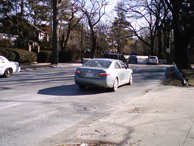 Fresh Pond Parkway (southbound) between Brattle Street and Huron Avenue.